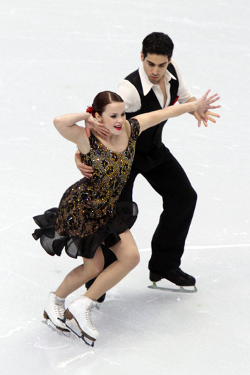 2010 Winter Olympics figure skating - Anna Cappellini and Luca Lanotte